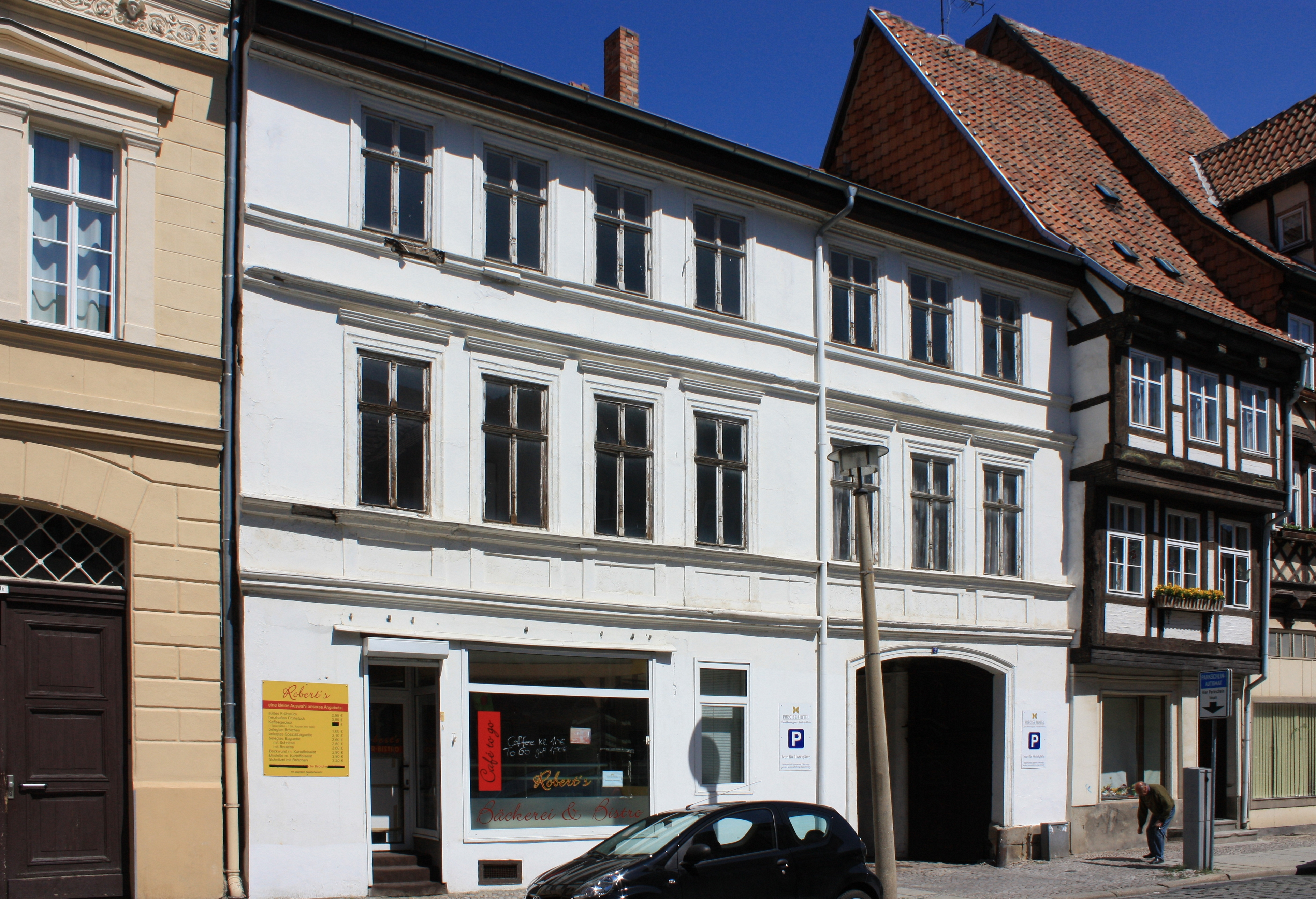 2=Building in Quedlinburg / Germany